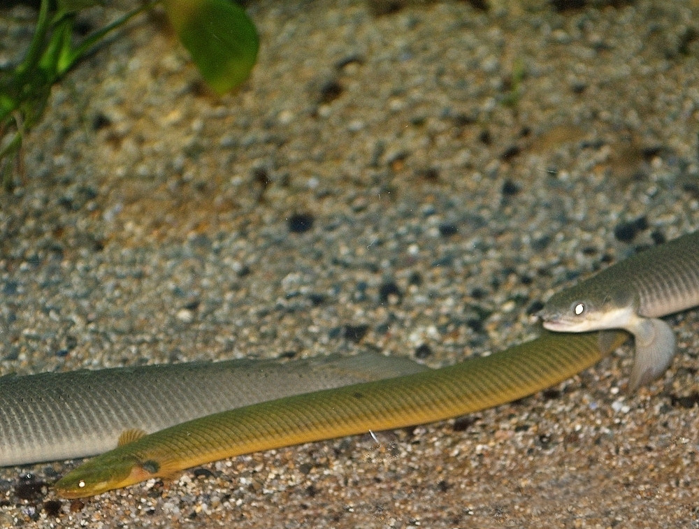 アミメウナギ Reedfish Species Erpetoichthys calabaricus Familia Polypteridae Location Suma Aqualife Park, KOBE, Japan Other photos; NCBI Taxonomy ID:27687 Copyright OpenCage